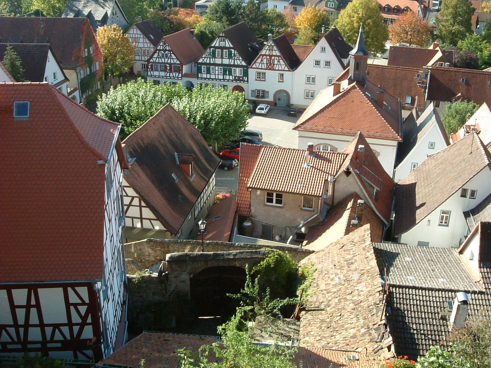 The Market Square in Zwingenberg. Author: Phil Nolan